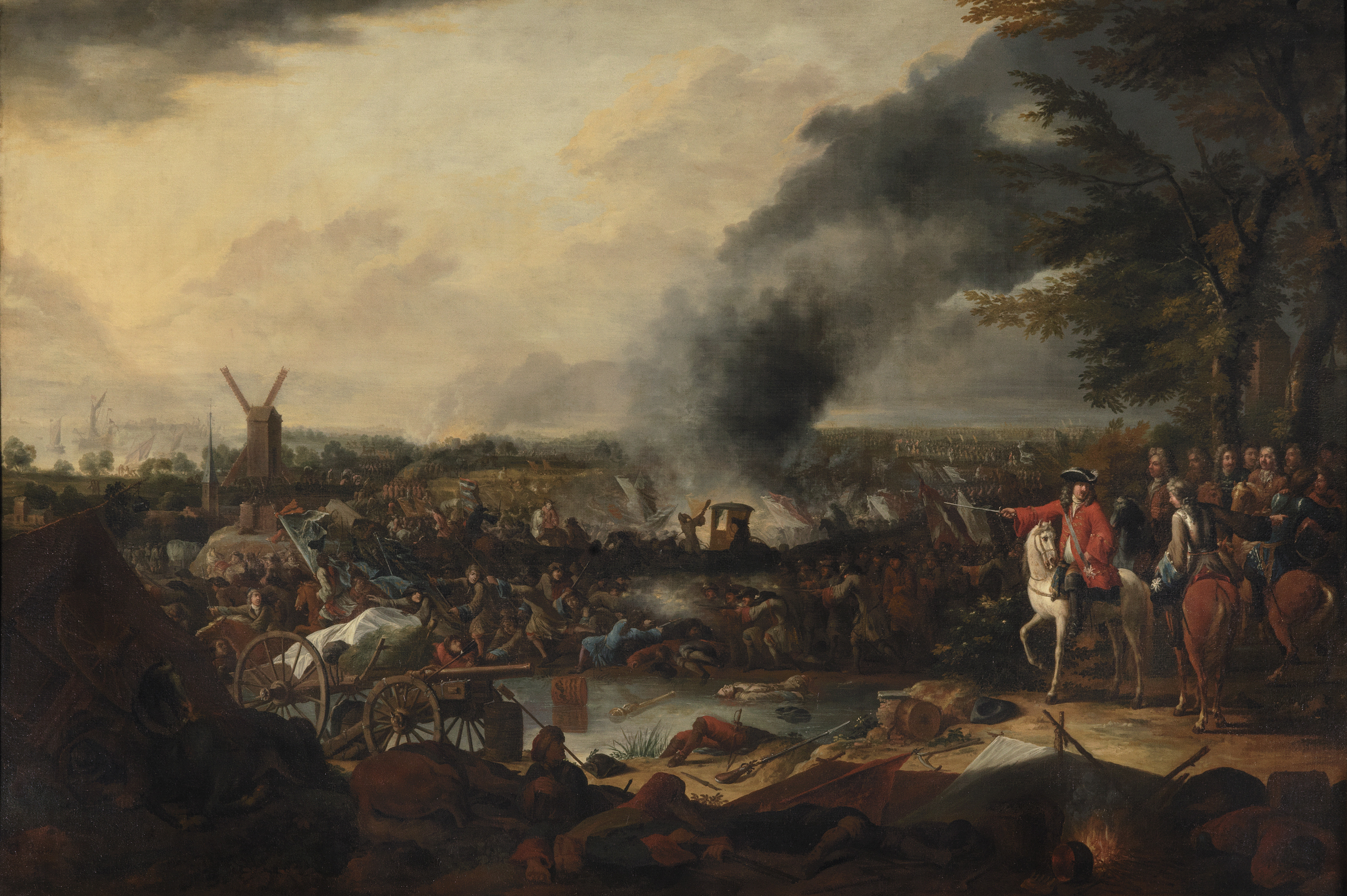 painting, Jasper Broers, Museum Plantin-Moretus